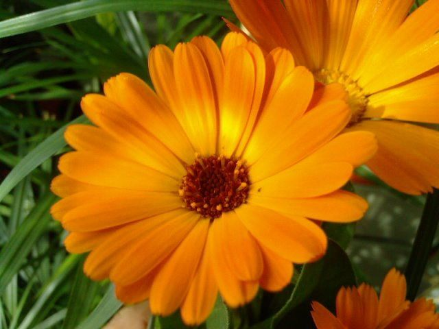 Flowers of calendula, Calendula officinalis